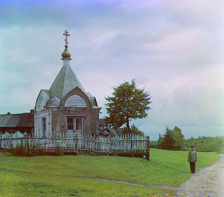 Chapel in Miatusovo